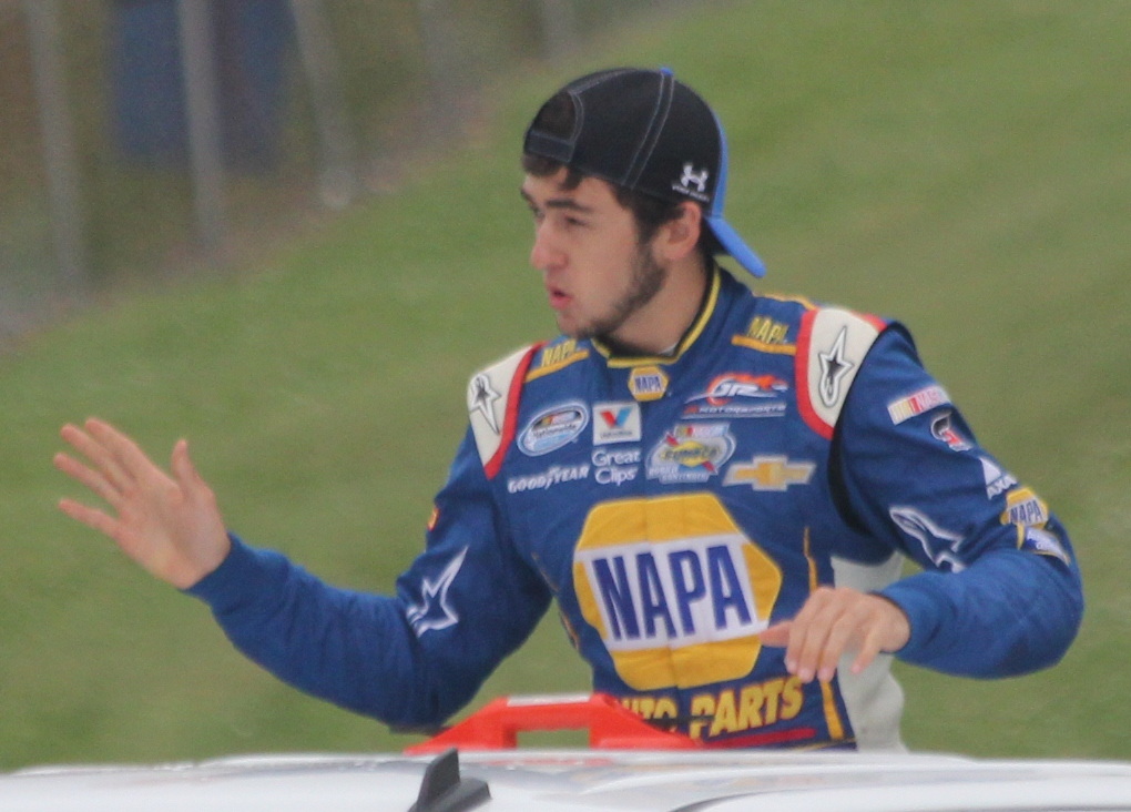 NASCAR Nationwide Series driver Chase Elliott waves to the crowd at the 2014 Gardner Denver 200 event at Road America.